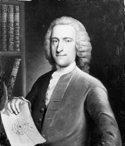 The diagram he holds demonstrates his theories on cometary catastrophism. A painting almost 300 years old, found on the covers of many books about Whiston.